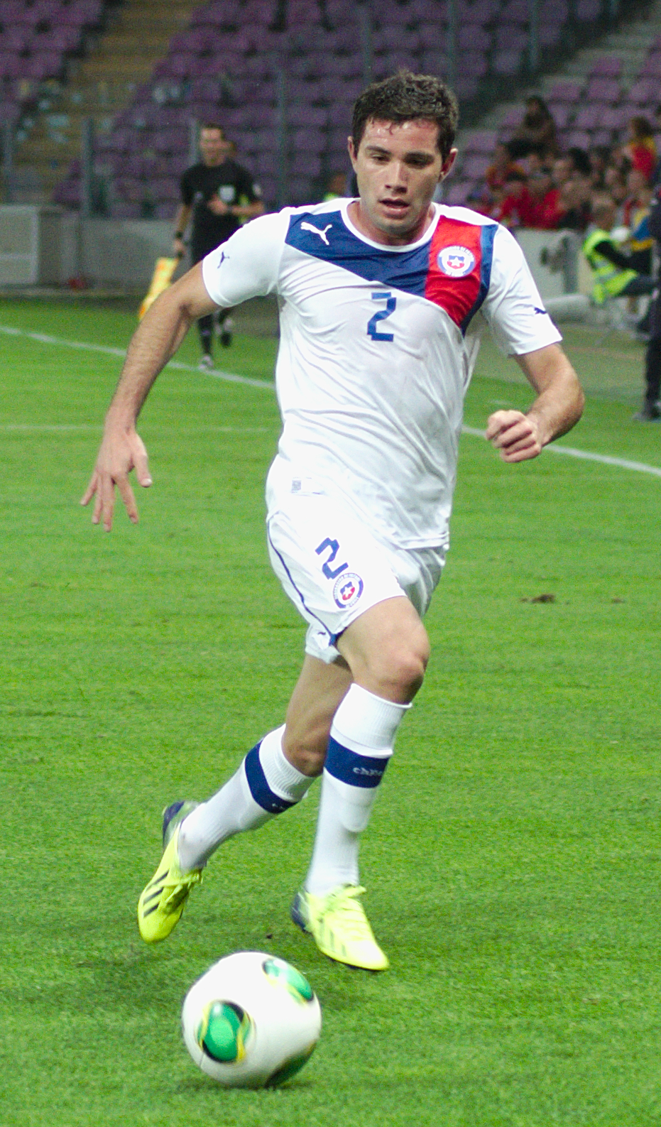 Spain - Chile - 10-09-2013 - Geneva - Alvaro Arbeloa and Eugenio Mena